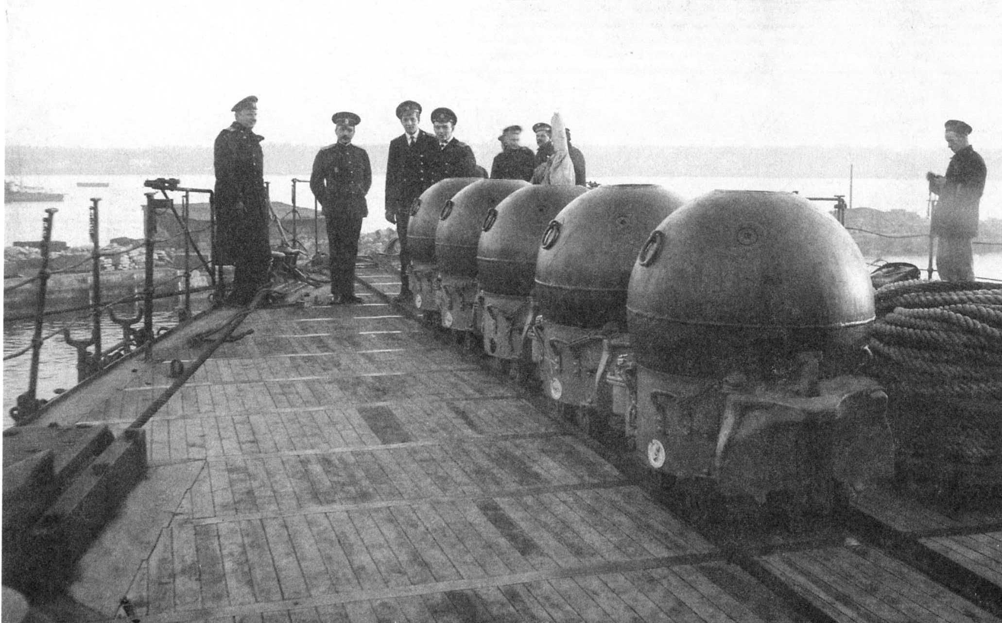 Naval mines on the Imperial Russian cruiser Admiral Makarov.